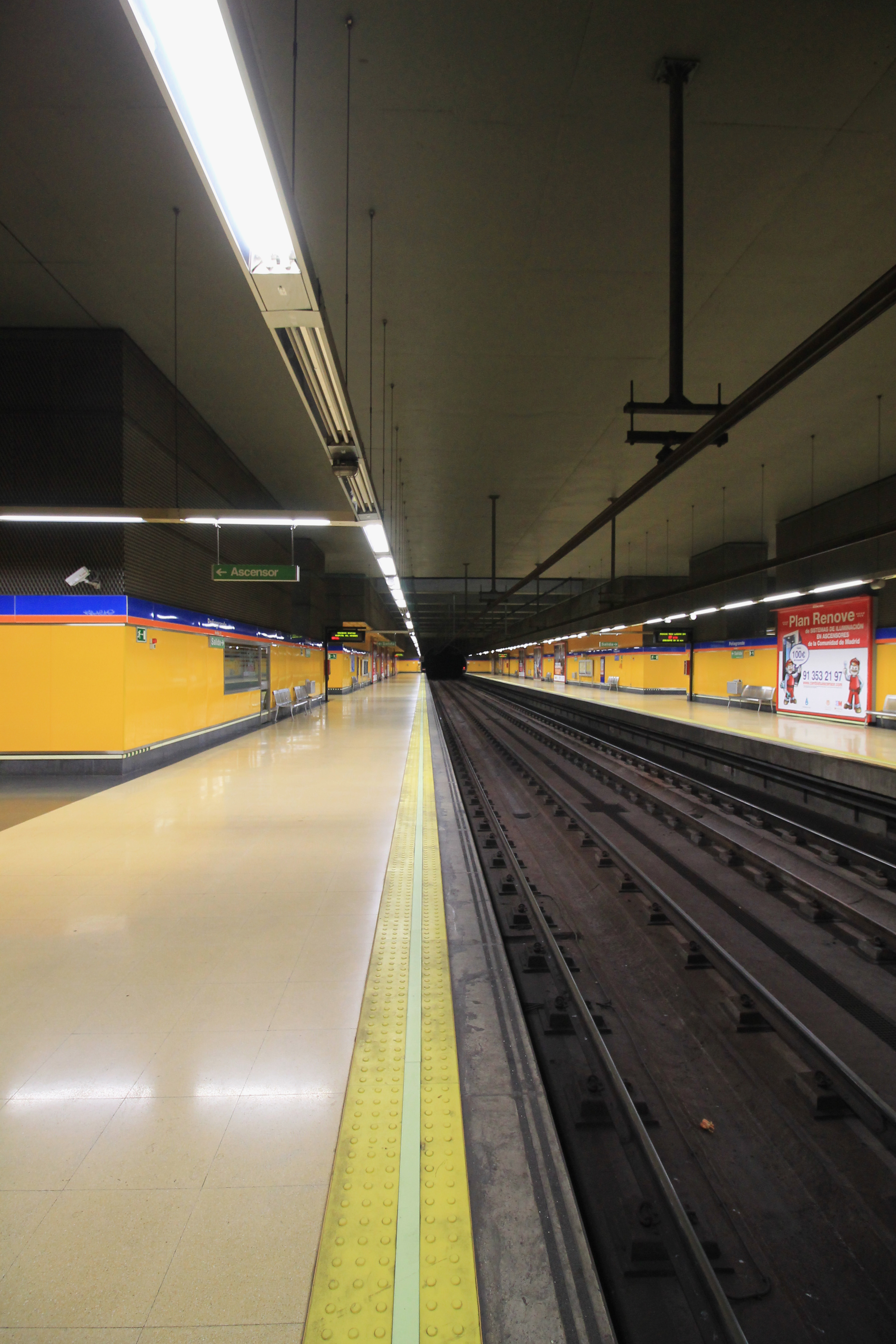 Platform at Peñagrande metro station in Madrid (Spain).